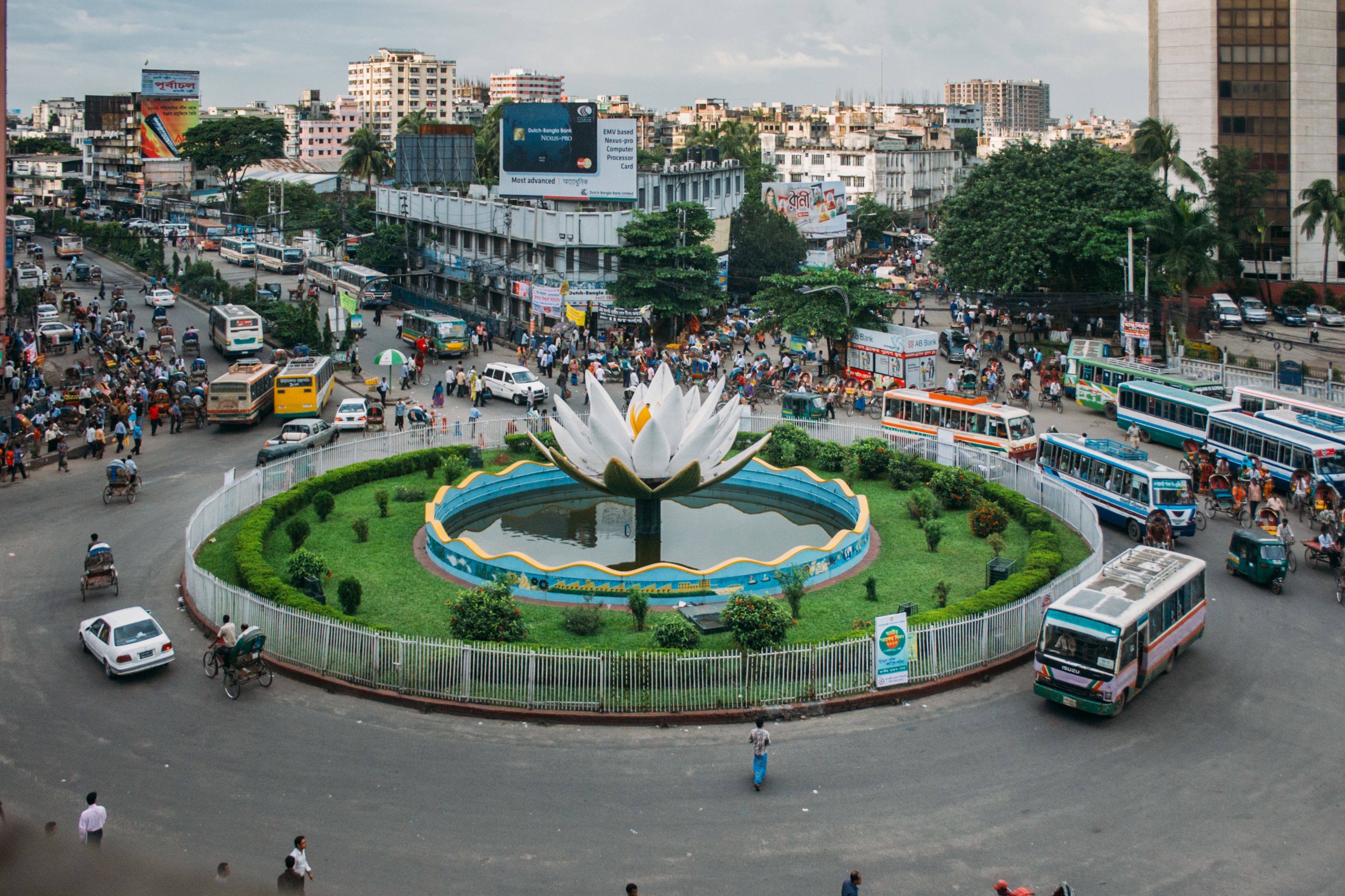 Shapla Square (Bengali: শাপলা চত্ত্বর, Shapla Chottor) is a huge sculpture at the heart of Motijheel near the center of Dhaka, capital of Bangladesh.